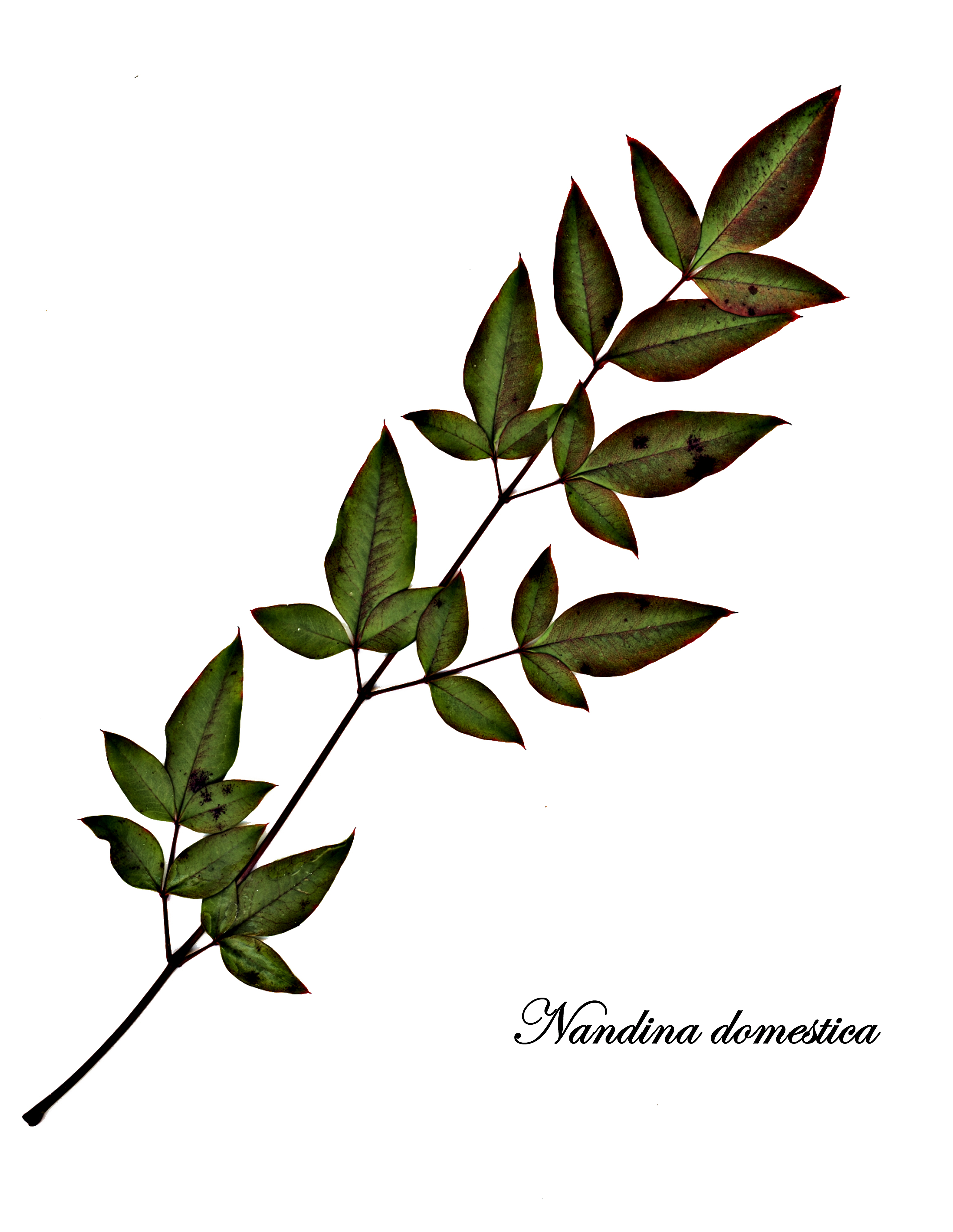 Nandina domestica—heavenly bamboo. Native to Asia from the Himalayas eastward to Japan. Photographed in a private garden in Berkeley, CA.